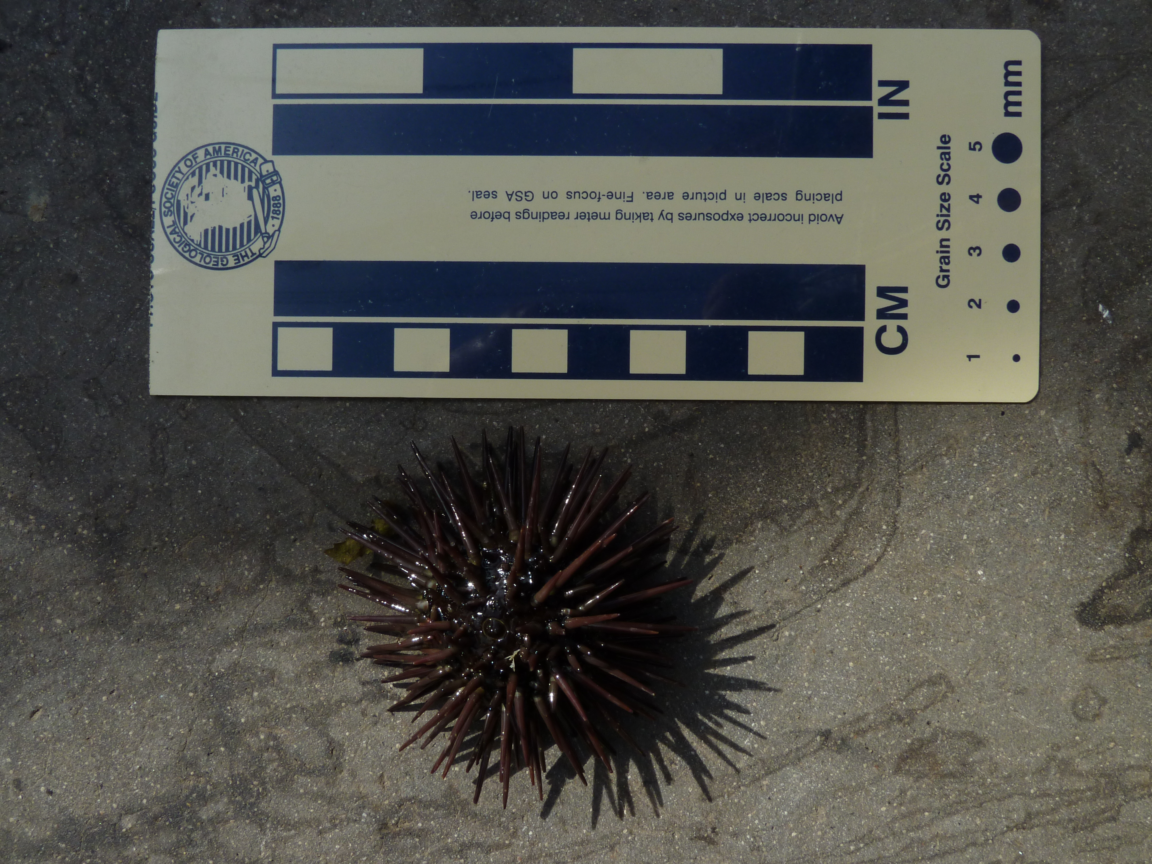 Arbacia punctulata Echinoid, aboral view showing absence of spines at the aboral pole. In trawl, RV Gemma, off Woods Hole, at TDWG 2010 p1000035